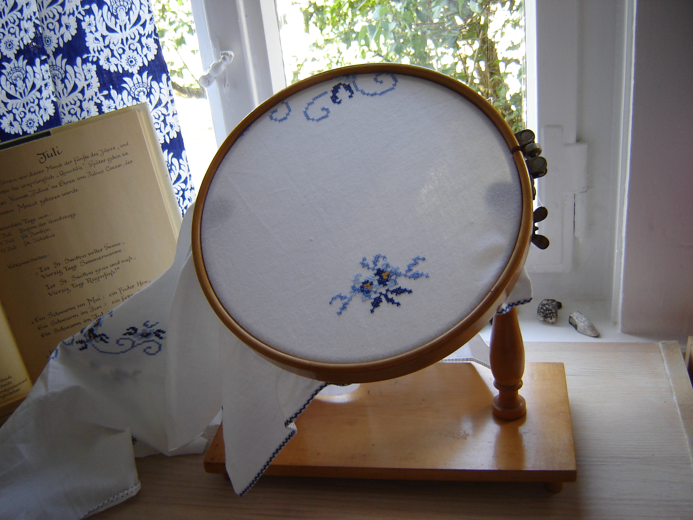 I really should start embroidering with the great gear I have gotten lately! I didn't do what you see, it is the leftover from an old tablecloth. Rest is here